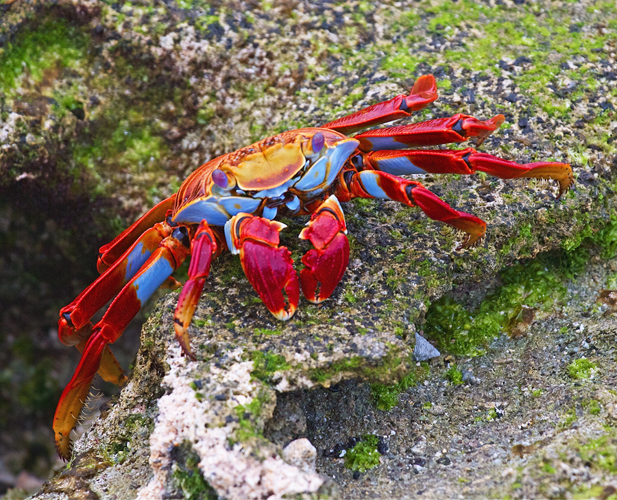 Sally Lightfoot Crab photo taken on Santa Cruz Island, Galapagos, Ecuador.